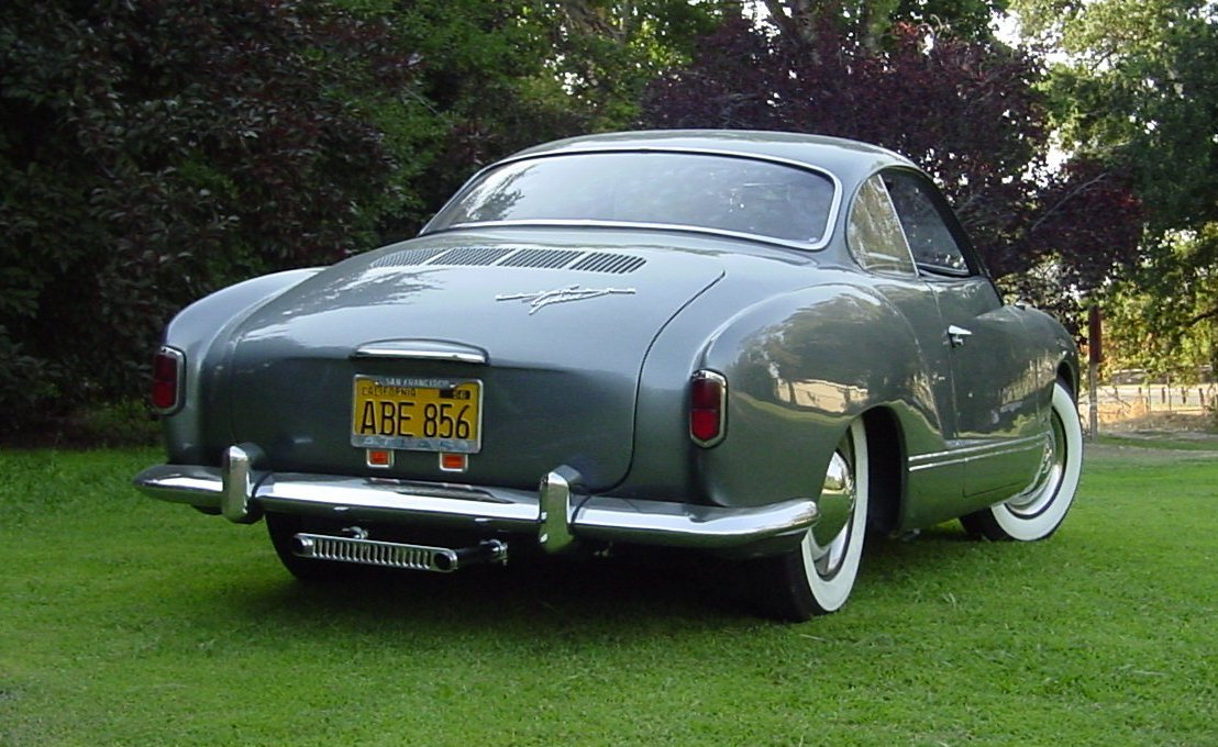 Rear view, taillight detail